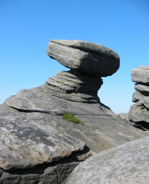 Wind erosion sculpture. This peculiar rock just below the trig point on Back Tor looks like an eagle's head